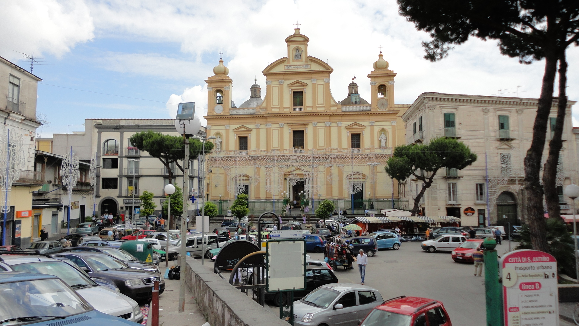 The Main Church on plaza at Sant'Antimo (NAPLES)